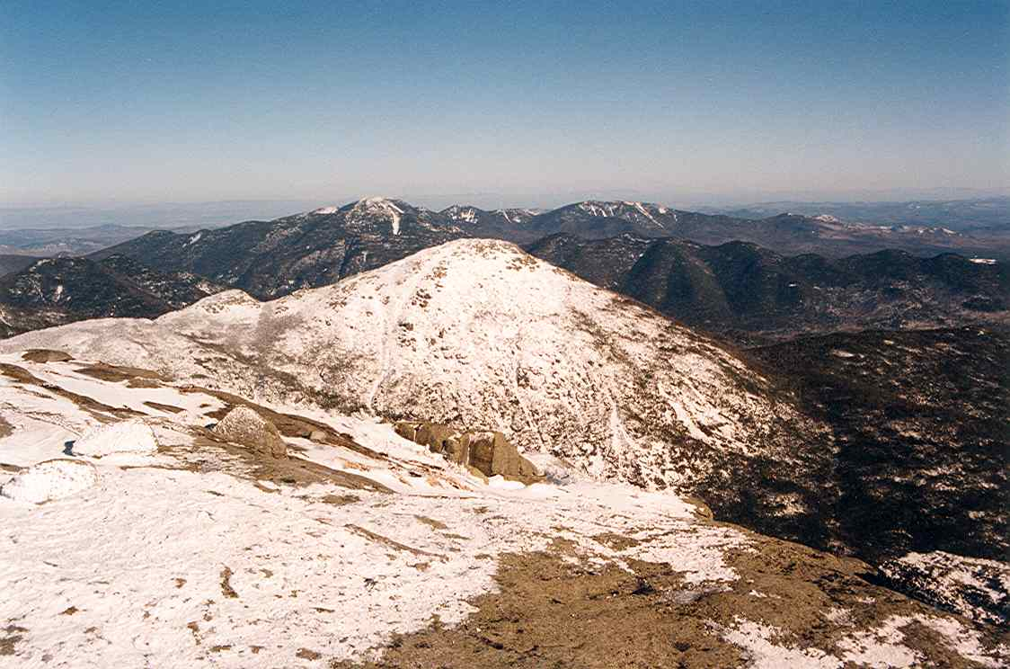 Little Haystack and Mt. Haystack seen from Mt. Marcy, Adirondacks, NY